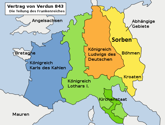 adaption of file:Treaty of Verdun.svg with accentuation of the sorbs